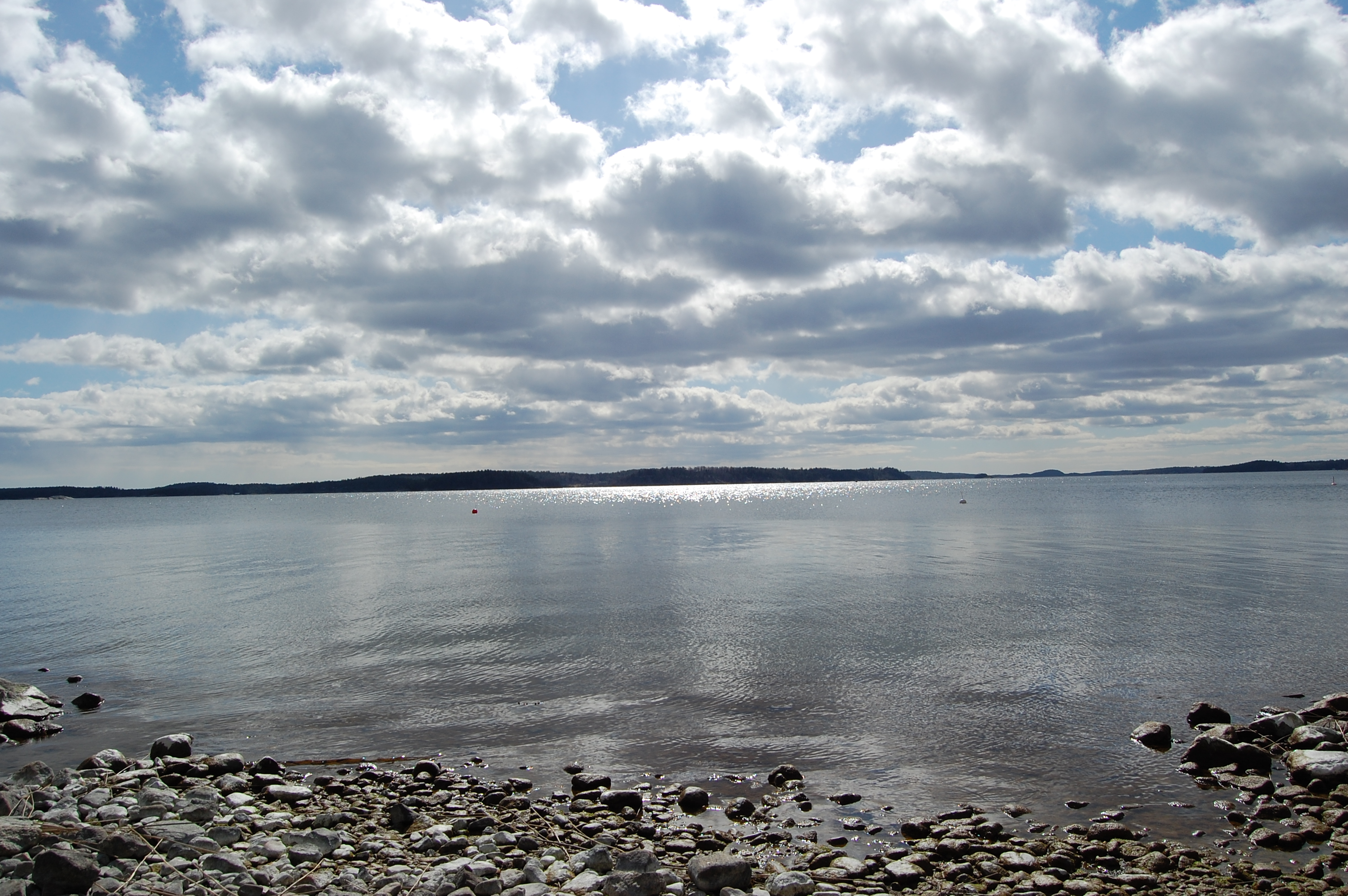 Årsta